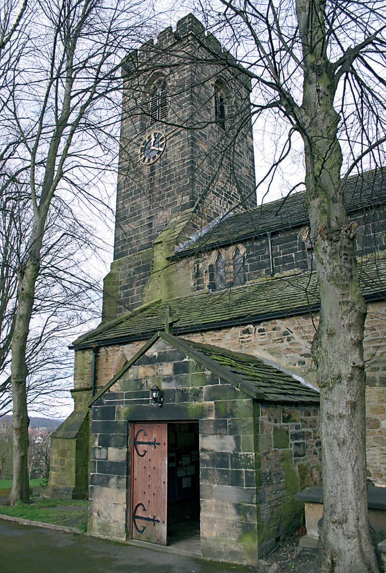 Kirkburton Church, West Yorkshire, England Photographed and uploaded by Richard Eddy, the copyright holder